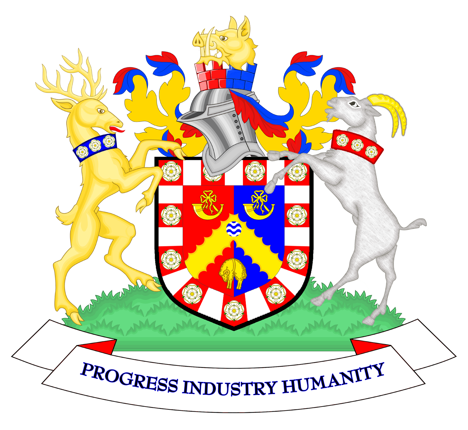 The Coat of arms of Bradford City Council, the local government authority for the City of Bradford, in West Yorkshire, England. The blazon is:*ARMS: Per pale Gules and Azure on a Chevron engrailed between in chief two Buglehorns stringed and in base a Fleece Or a Fountain the whole within a Bordure gobony of the first and Argent charged on the Gules with eleven Roses of the last barbed and seeded proper.*CREST: Upon a Mural Crown per pale Gules and Azure a Boar's Head sans Tongue erased Or; Mantled Azure and Gules doubled Or.*SUPPORTERS: On the dexter side a Stag Or gorged with a Collar Azure thereon three Roses Argent barbed and seeded proper and on the sinister side an Angora Goat Argent horned Or gorged with a Collar Gules charged with three like Roses.